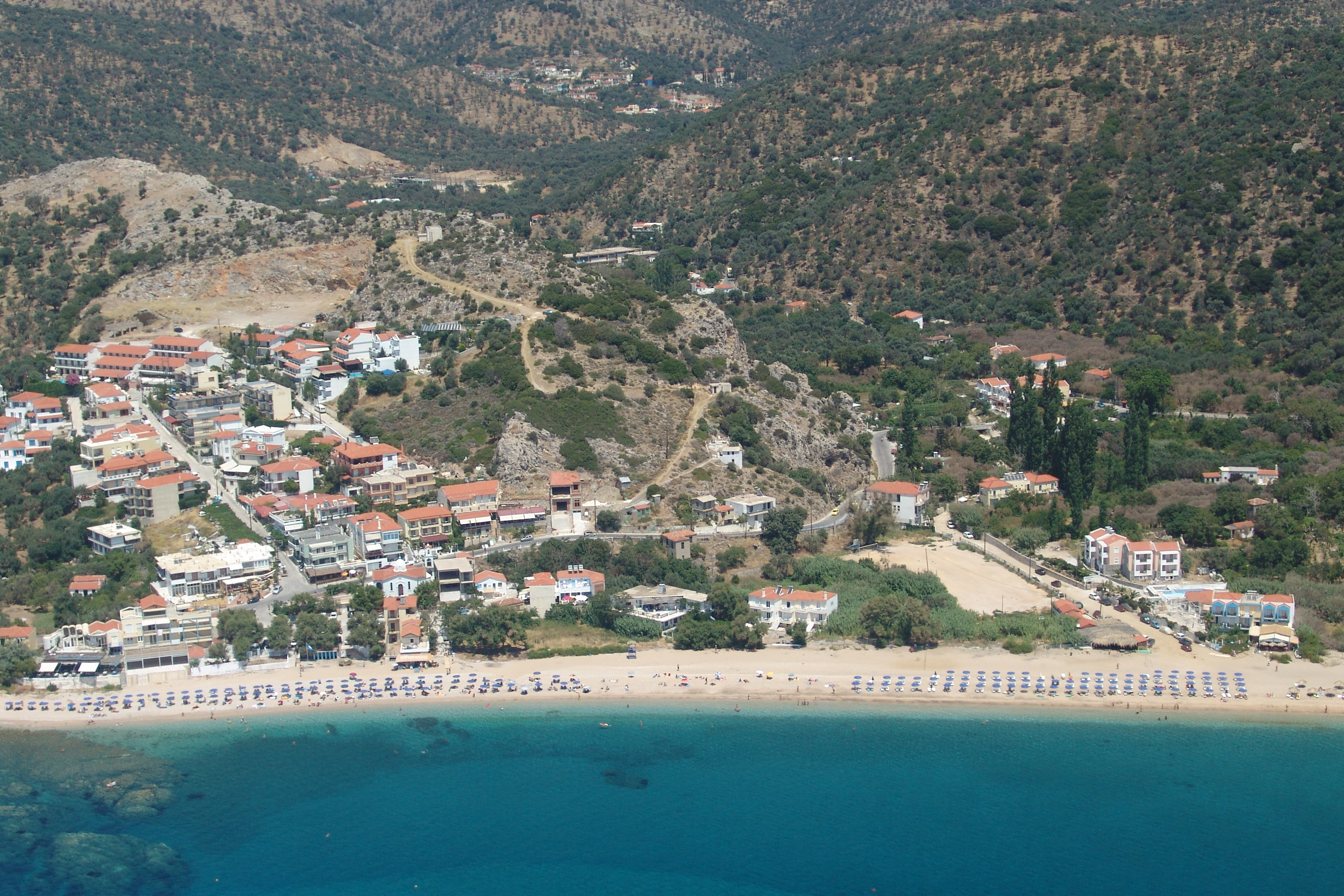 An aerial photo of Agios Isidoros beach taken by me in 2004. Costis STEFANOU